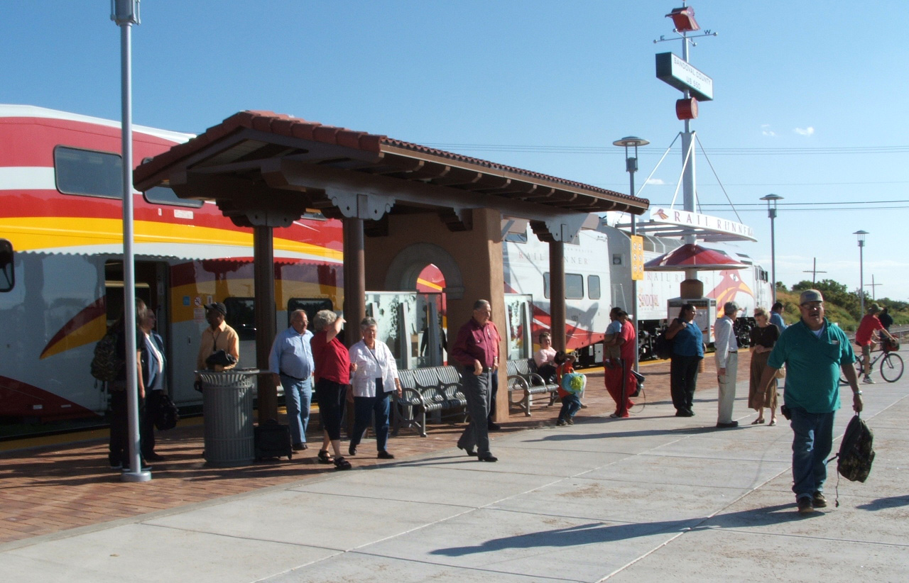 The Sandoval County/US 550 station on the New Mexico Rail Runner commuter train line.